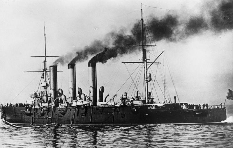 Erroneus description - in fact it is one of Pallada class protected cruisers (Pallada, Diana, Avrora), of which Pallada was sunk in 1905 in Port Arthur. This is not Pallada armoured cruiser, launched in 1905. The photo might be the first Pallada, but then it was probably taken around 1902-1903